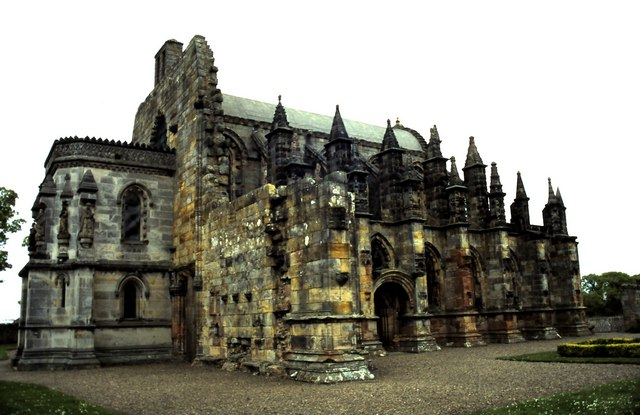 Roslin or Rosslyn Chapel Founded in the early 15th century by Wm. St.Clair, Earl of Orkney, this is truly a magical building associated with the Knights Templar. The Holy Grail is said to be buried here. A claim used by Dan Brown in his book,"The Da Vinci Code" which was filmed here. The interior has magnificent stone carvings and, amongst its mysteries, carvings of a maize plant done before the discovery of America. For many years the roof has been covered in scaffolding and plastic sheeting in an attempt to dry out the stonework. This old photo shows the building before this restoration was started. The exterior is, in my view, not attractive but the interior is truly outstanding.If visiting I recommend taking binoculars to view the elaborate carvings covering the entire ceiling. It is still used as an Episcopalian church.